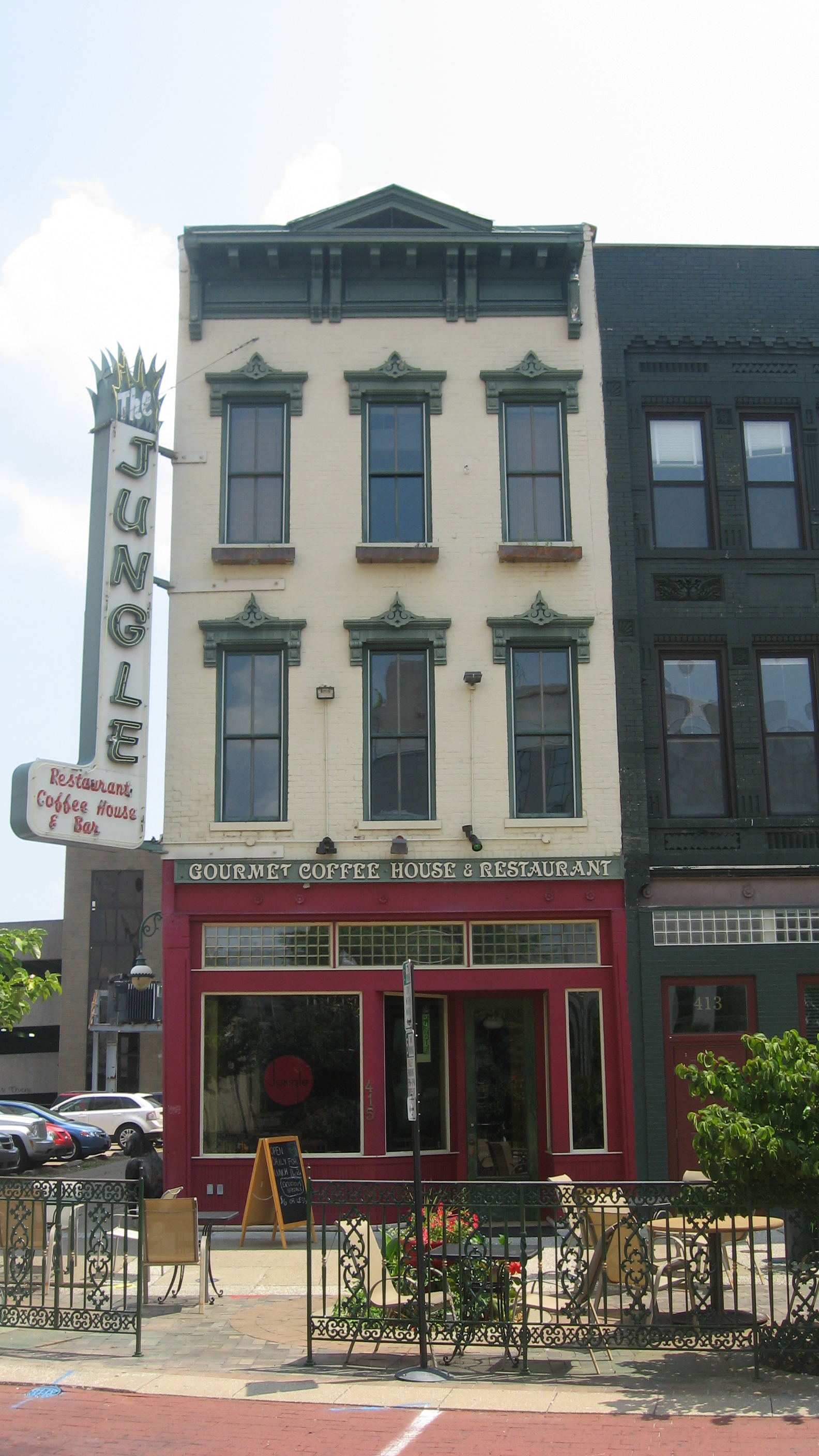 Front of Barrett's Britz Building, located at 415 Main Street in Evansville, Indiana, United States. Built in 1875, it is listed on the National Register of Historic Places.